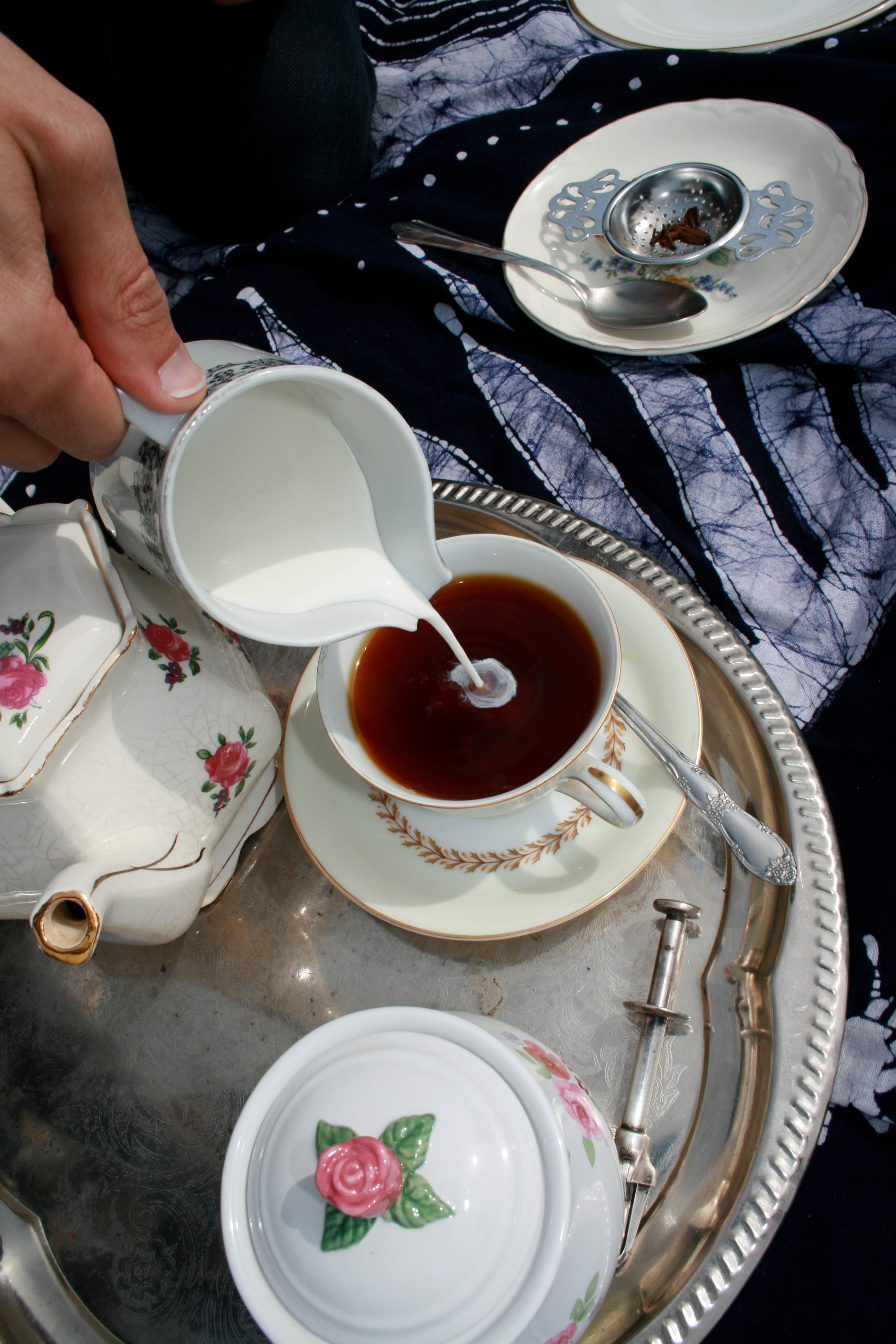 Ahhhh!!.